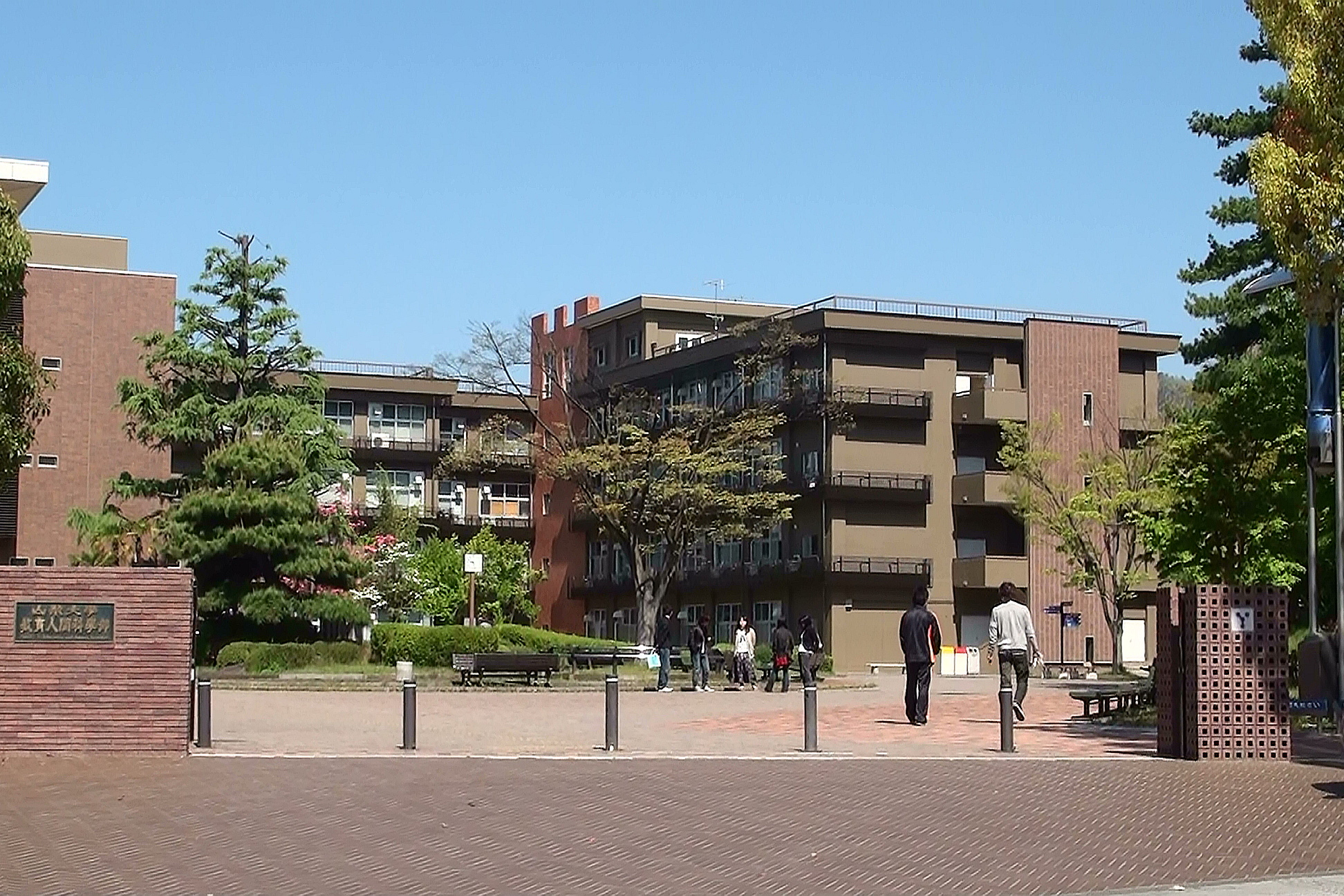 University of Yamanashi Kofu Campus Faculty of Education Human Sciences